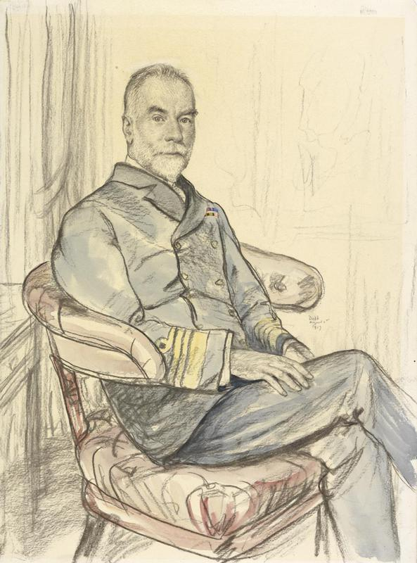 Admiral Hon Sir Alexander Edward Bethel Kcb image: a three quarter length portrait of the bearded Admiral Sir Alexander Bethel in uniform sitting on a chair.